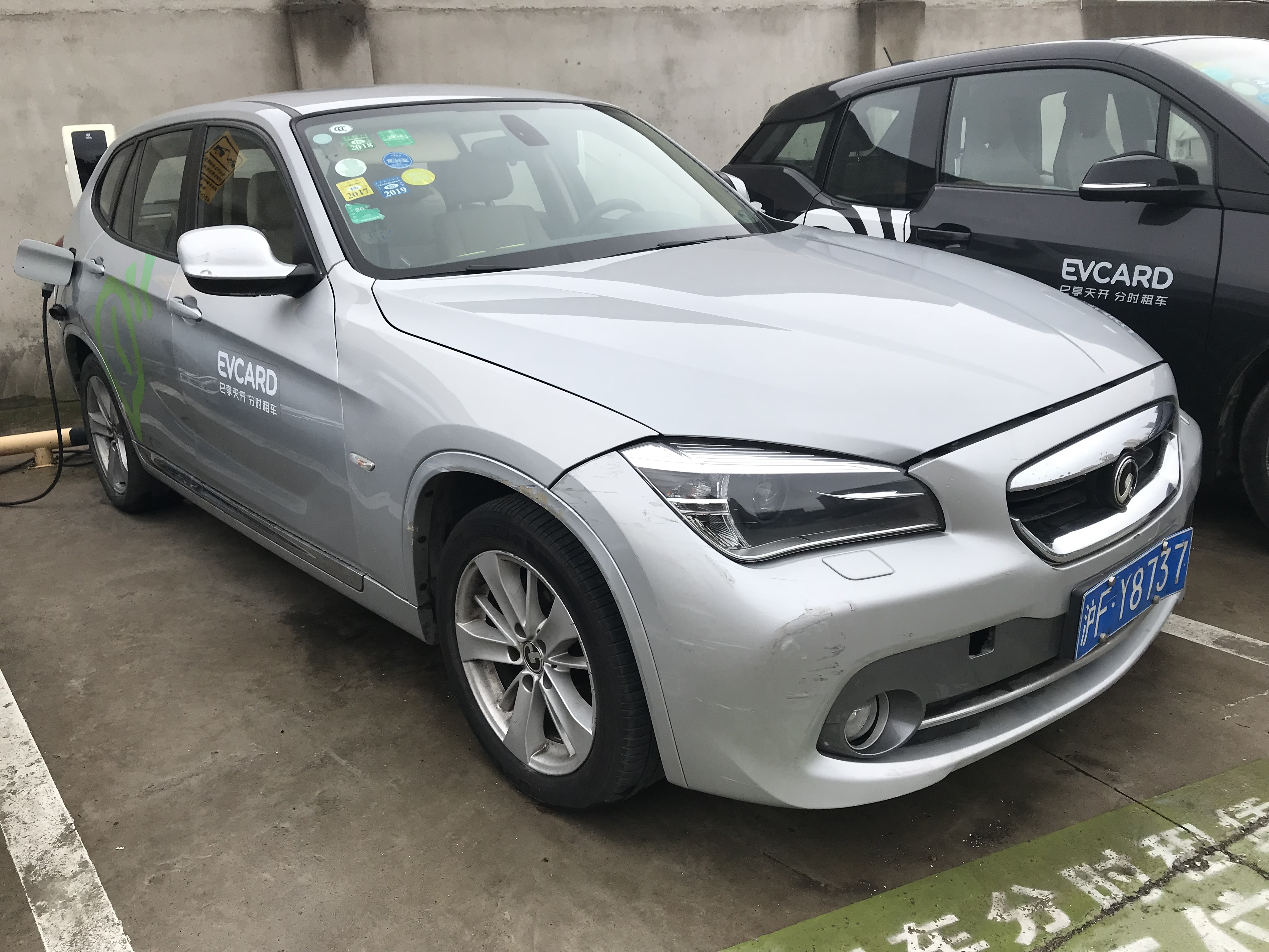 Zinoro 1E EVCARD.